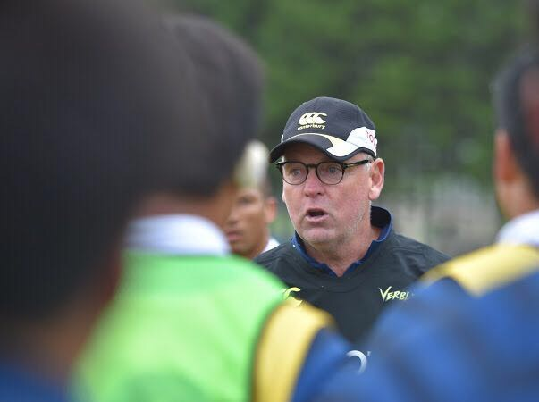 Jake White talking to the team at Toyota Verblitz